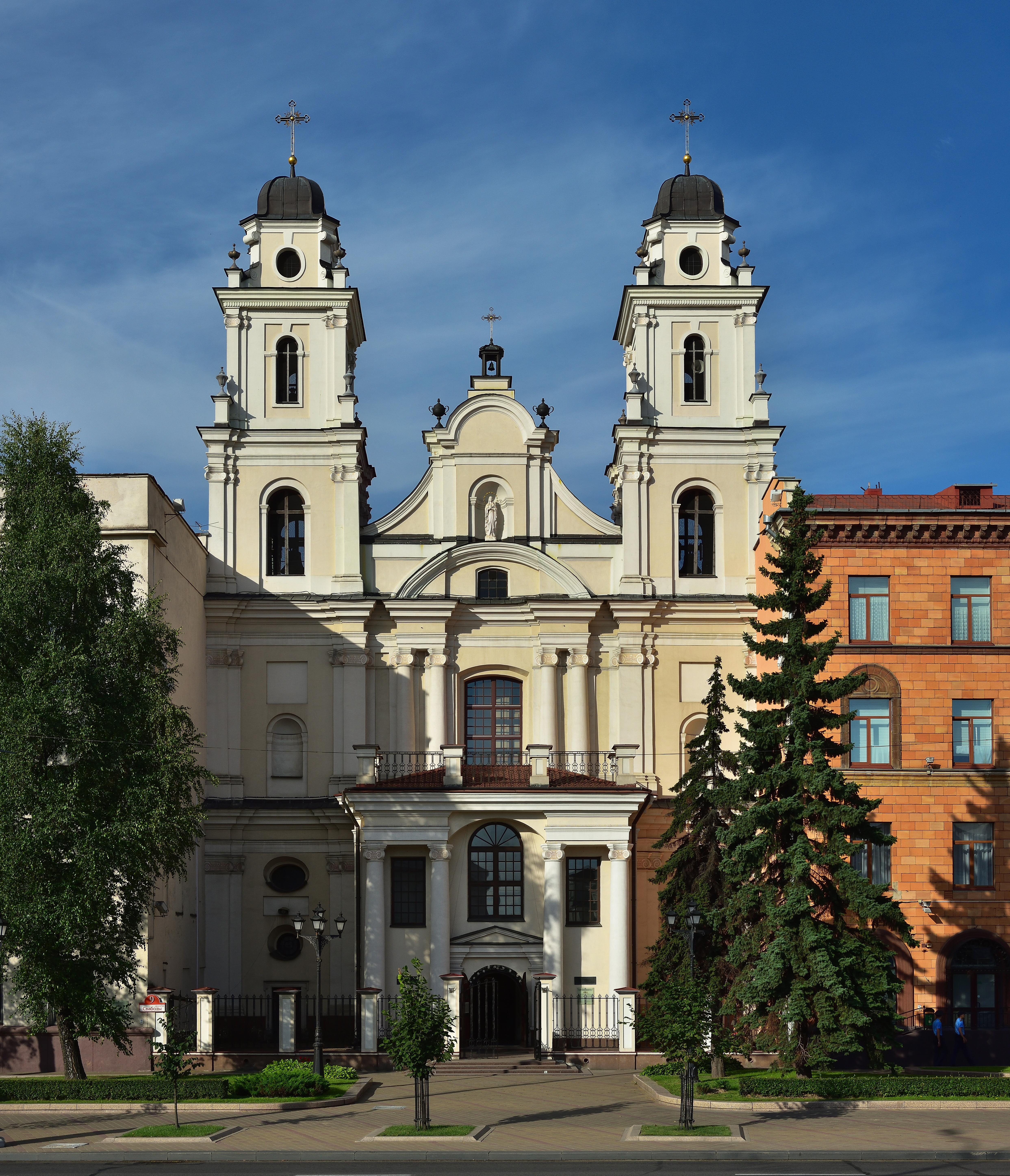 Archcathedral of Name of the Blessed Virgin Mary, Minsk